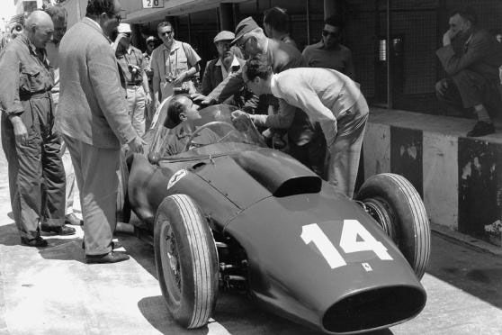 The Ferrari 326 MI at 500 Miglia di Monza on 29 June 1958. May look like Phil Hill in the racing seat.